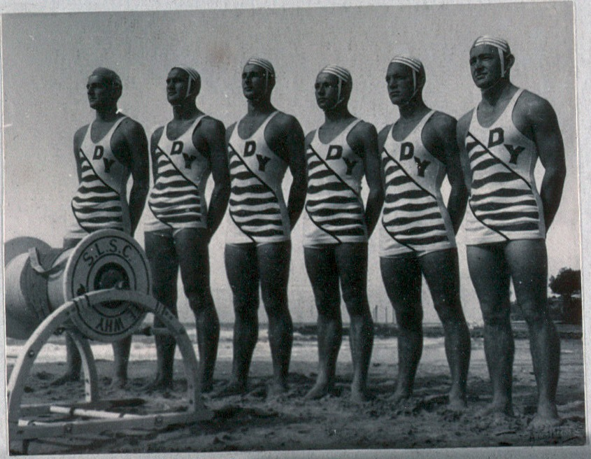 This image depicts the Dee Why senior R and R (Rescue and Resuscitation) Team after winning the Australian Championship in 1951. The team stands behind a reel line and comprises of Tom Dalton, Harold Gee, Peter McKenzie, Hugh McKenzie, Hugh Maccallum, Cameron Copland and Joe Thoroughgood. The Australian National Maritime Museum undertakes research and accepts public comments that enhance the information we hold about images in our collection. If you can identify a person, vessel or landmark, write the details in the Comments box below. Thank you for helping caption this important historical image. Object number 00005846 ANMM Collection Gift from James Dempster